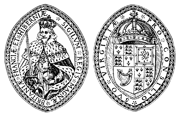 The seal of the London Company, also known as the Charter of the Virginia Company of London. The Company was an English joint stock company established by royal charter by James I on 10 April 1606 with the purpose of establishing colonial settlements in North America. It was not founded as a joint stock company, but became one under its 1609 charter. It was responsible for establishing the Jamestown Settlement, the first permanent English settlement in the present United States in 1607, and in the process of sending additional supplies, inadvertently settled the Somers Isles (present day Bermuda), the oldest-remaining English colony, in 1609. In 1624, the company lost its charter, and Virginia became a royal colony. The Latin phrase on the left oval "SIGILVM REGIS MAGNÆ BRITANIÆ FRANCIÆ ET HIBERNIÆ" means "Sign of the great king of Britain, Francia and Hibernia".